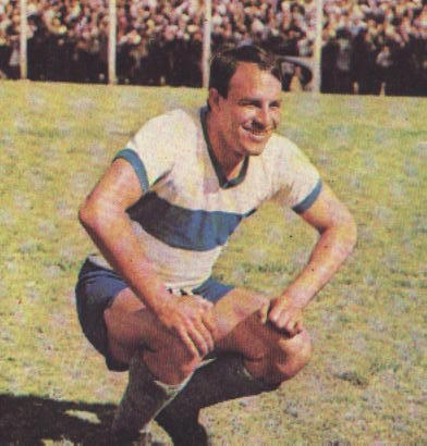 This is Alfredo "el tanque" Rojas. Argentine footballer.